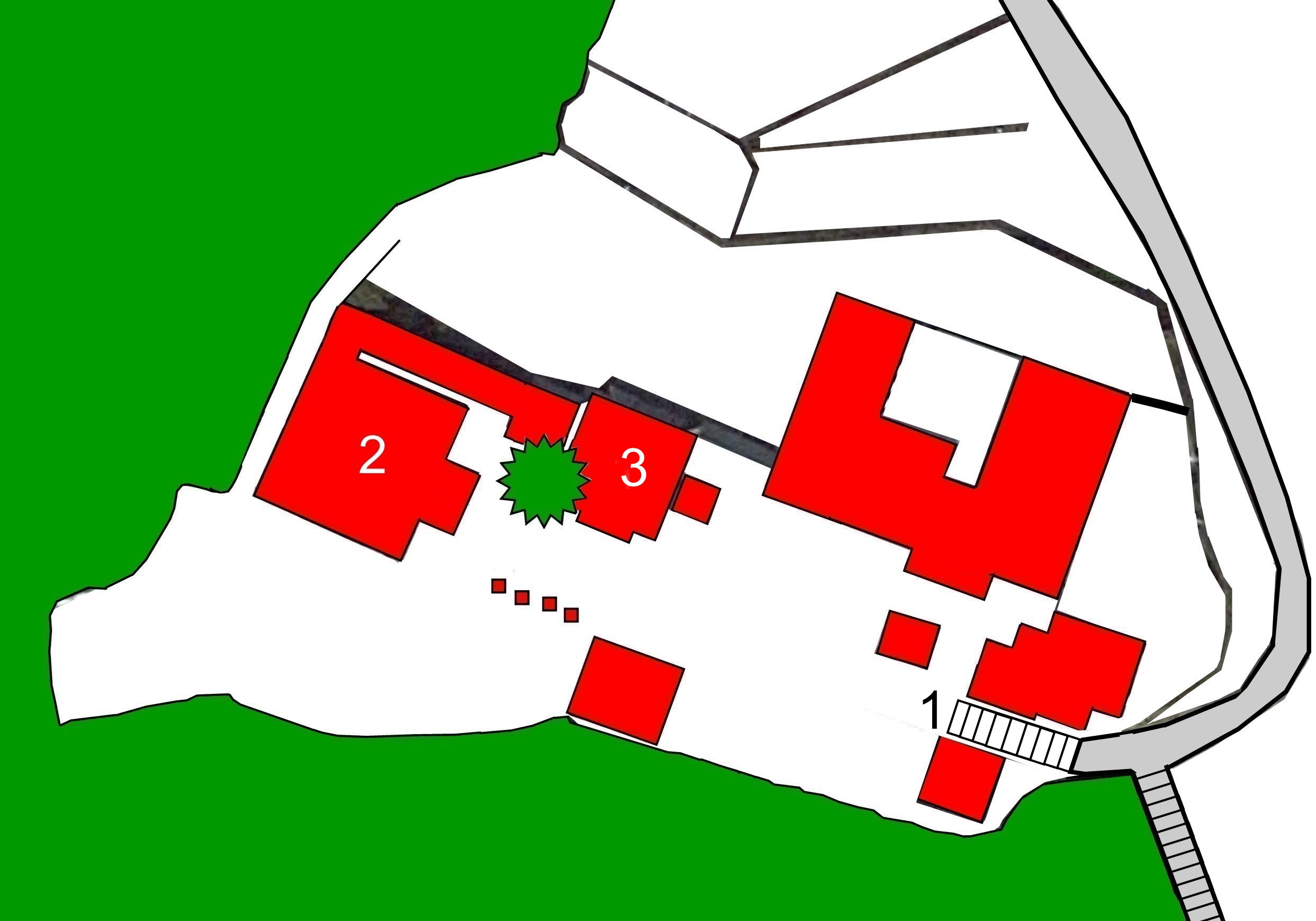 Layout of Jōraku-ji (Tokushima)